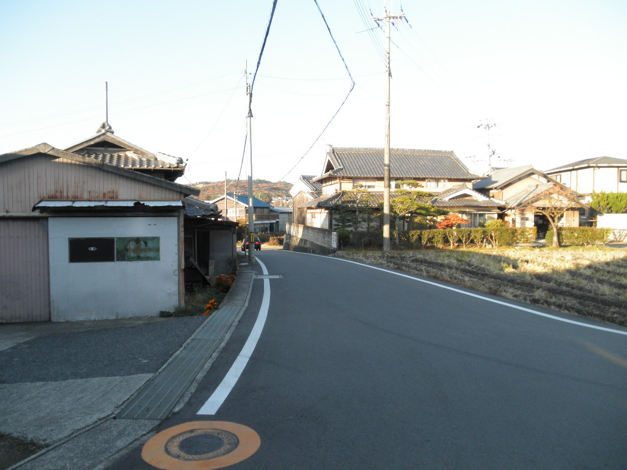 Iwamiya Mikicity Hyogopref